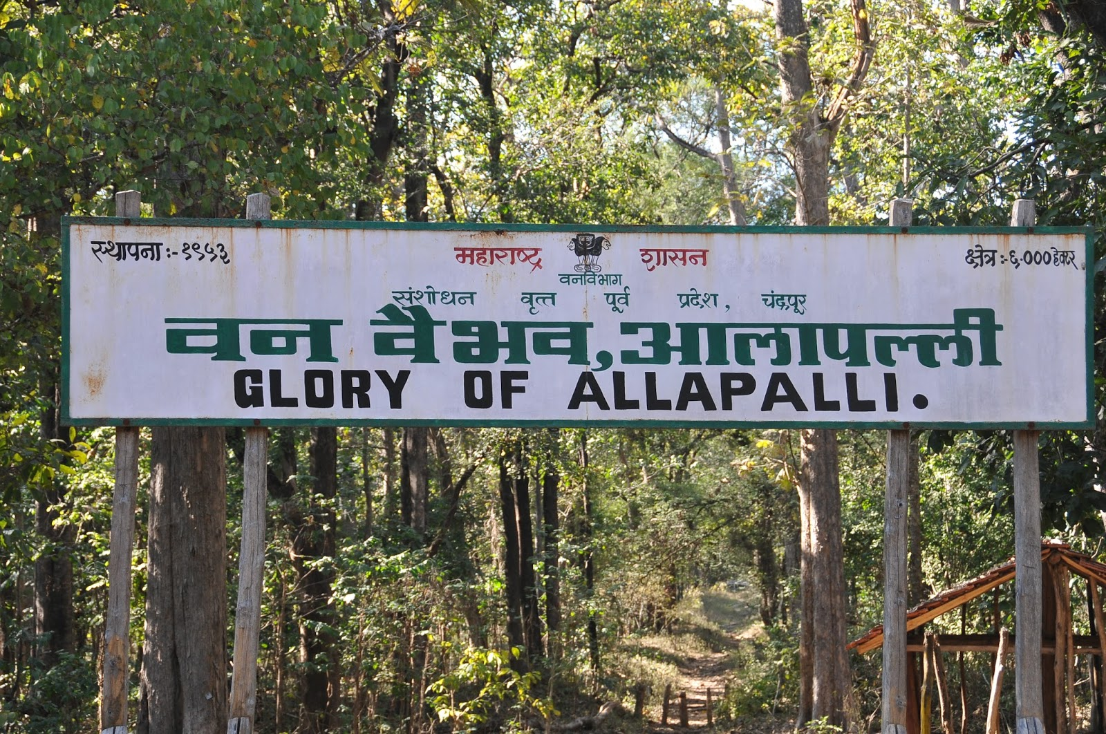 The Glory of Allapalli is situated in compartment no 76 in Allapalli Forest Range. It is about 16 k.m. from Allapalli on the way to Bhamragad. It is a permanent preservation plot, which is maintained for the study of Allapalli forest under their natural condition. The plot has an area of 6 hector and it is established in the year 1953. The Various species of trees such as teak, tendu, dhawala, kusum, yen ect. are available in Van Vaibhav area. Also, medicinal plants such as gunj, tarota, gulwel are being found being here.